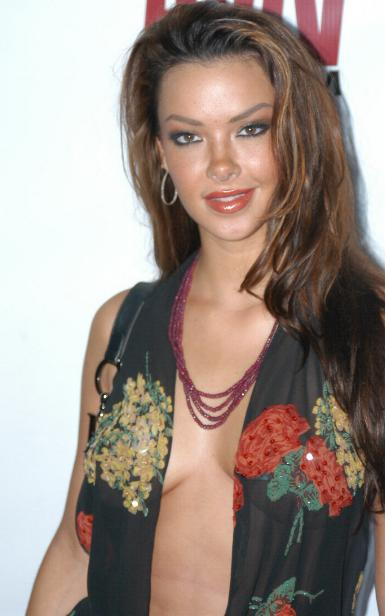 Sophia Santi at Digital Playground party for movie Island Fever 4, September 17 2006